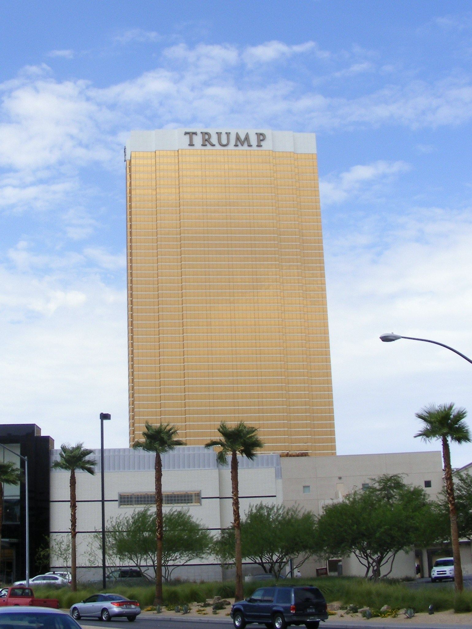 Trump Hotel in Las Vegas